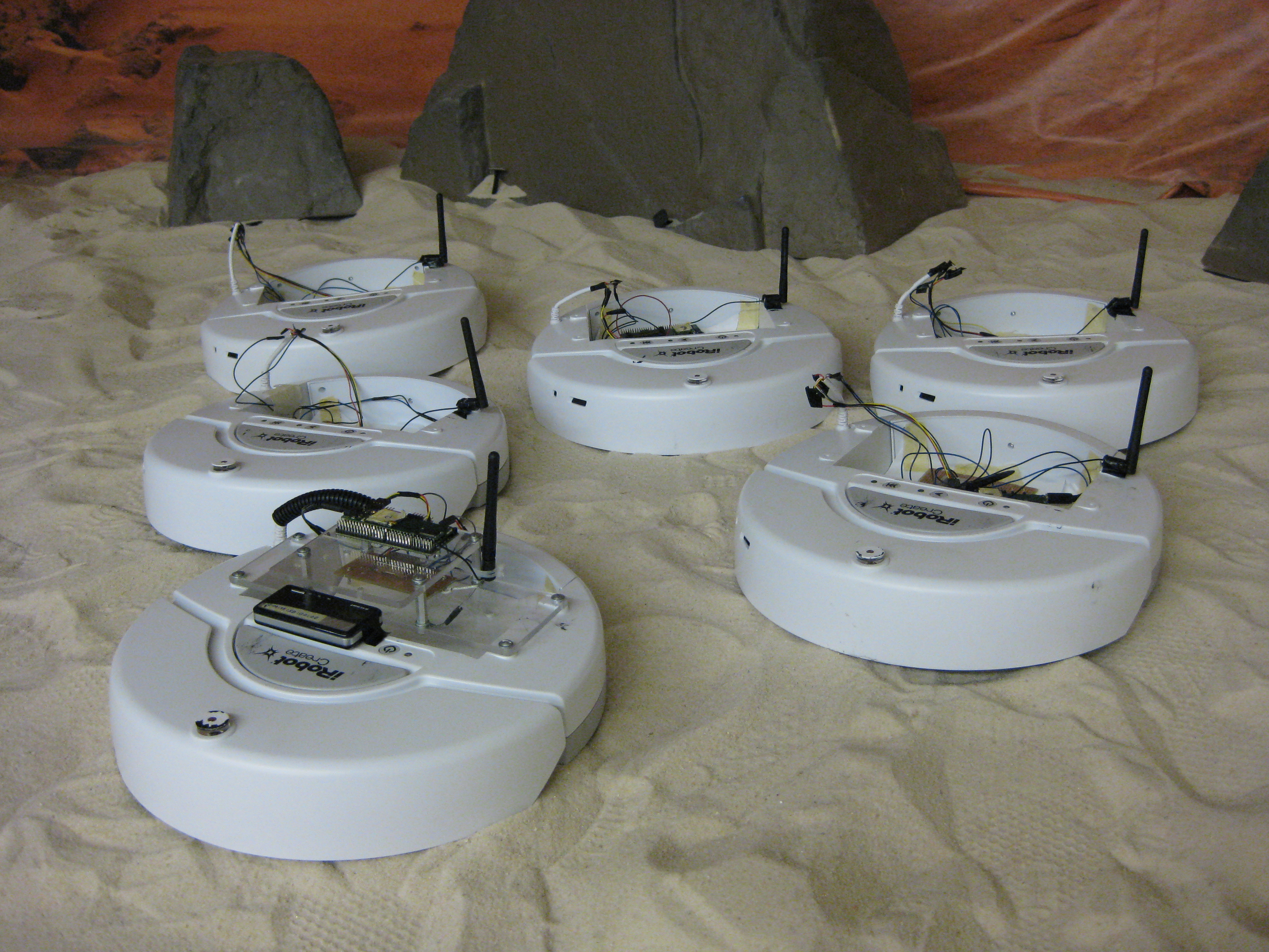 A team of iRobot Create robots at the Georgia Institute of Technology. Each robot is equipped with a Gumstix computer and a Bluetooth GPS unit